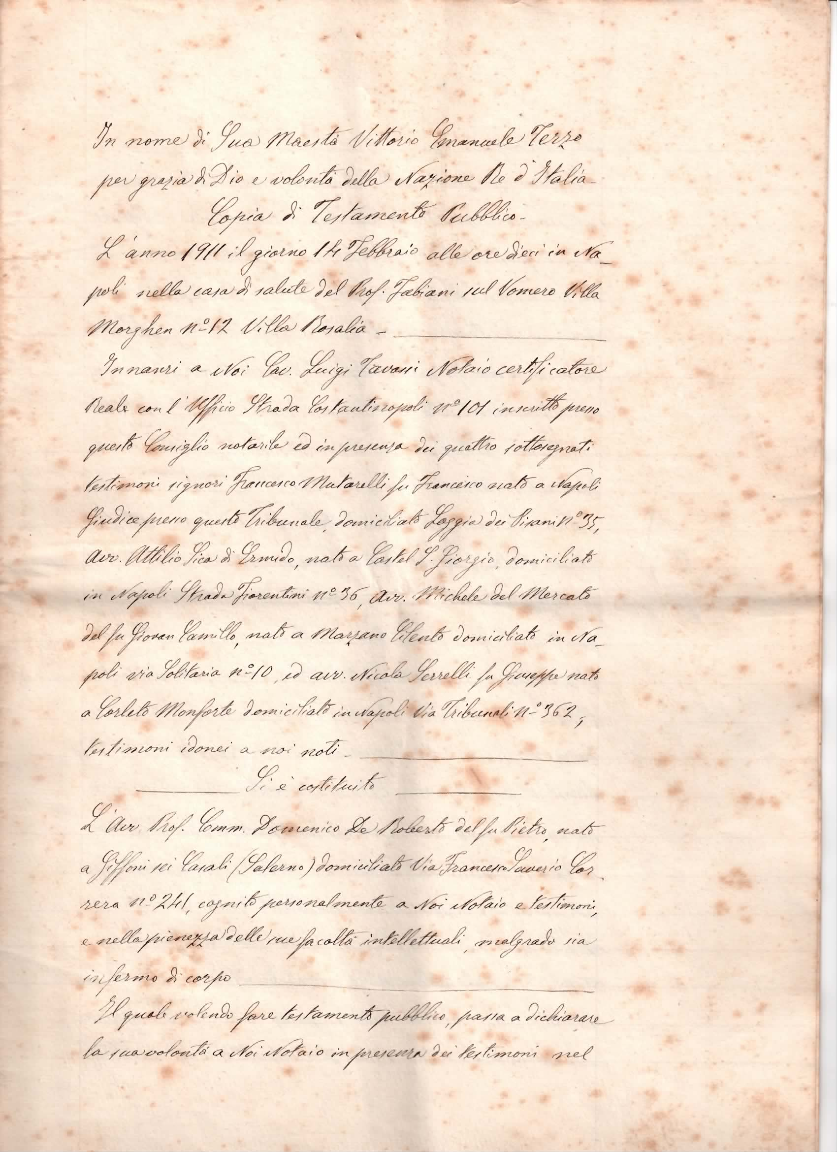 Testamento del Prof. Avv. Domenico de Roberto